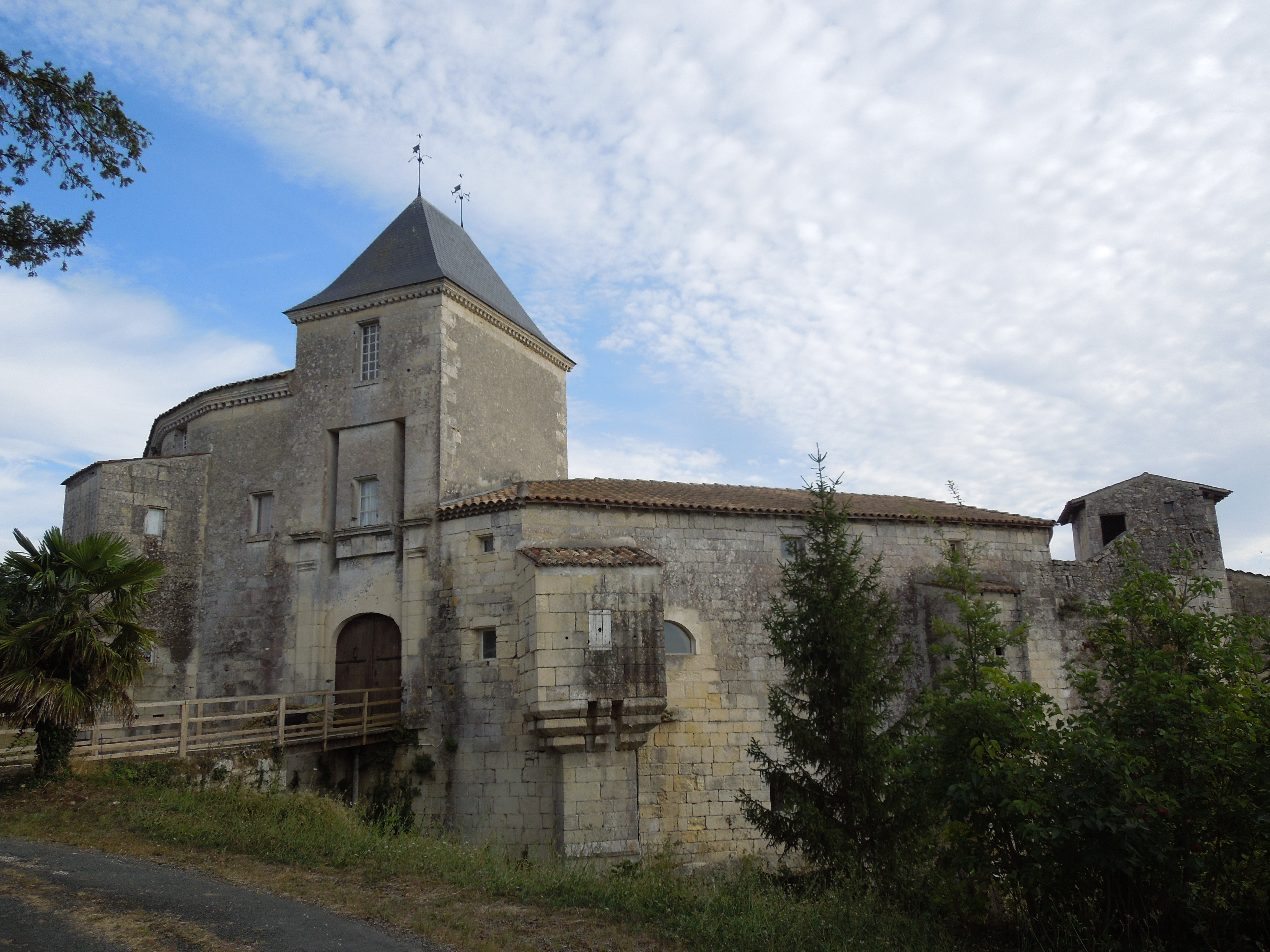 Château d'Ardennes (Fléac-sur-Seugne), view from northwest